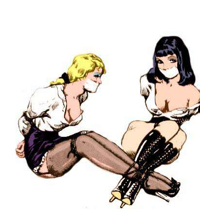 Painting of S/M sexuality